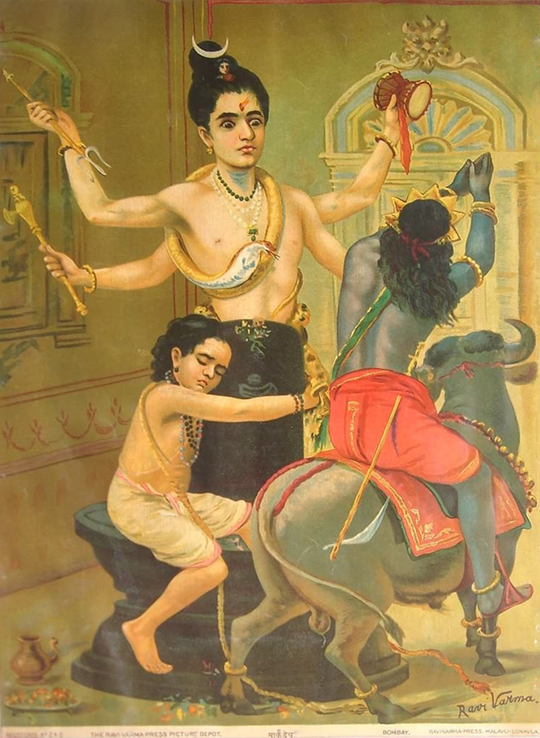 The powerful ascetic Shiva defends his devotee Markandeya from Yama, the god of death, First printed by Ravi Varma Press in 1910